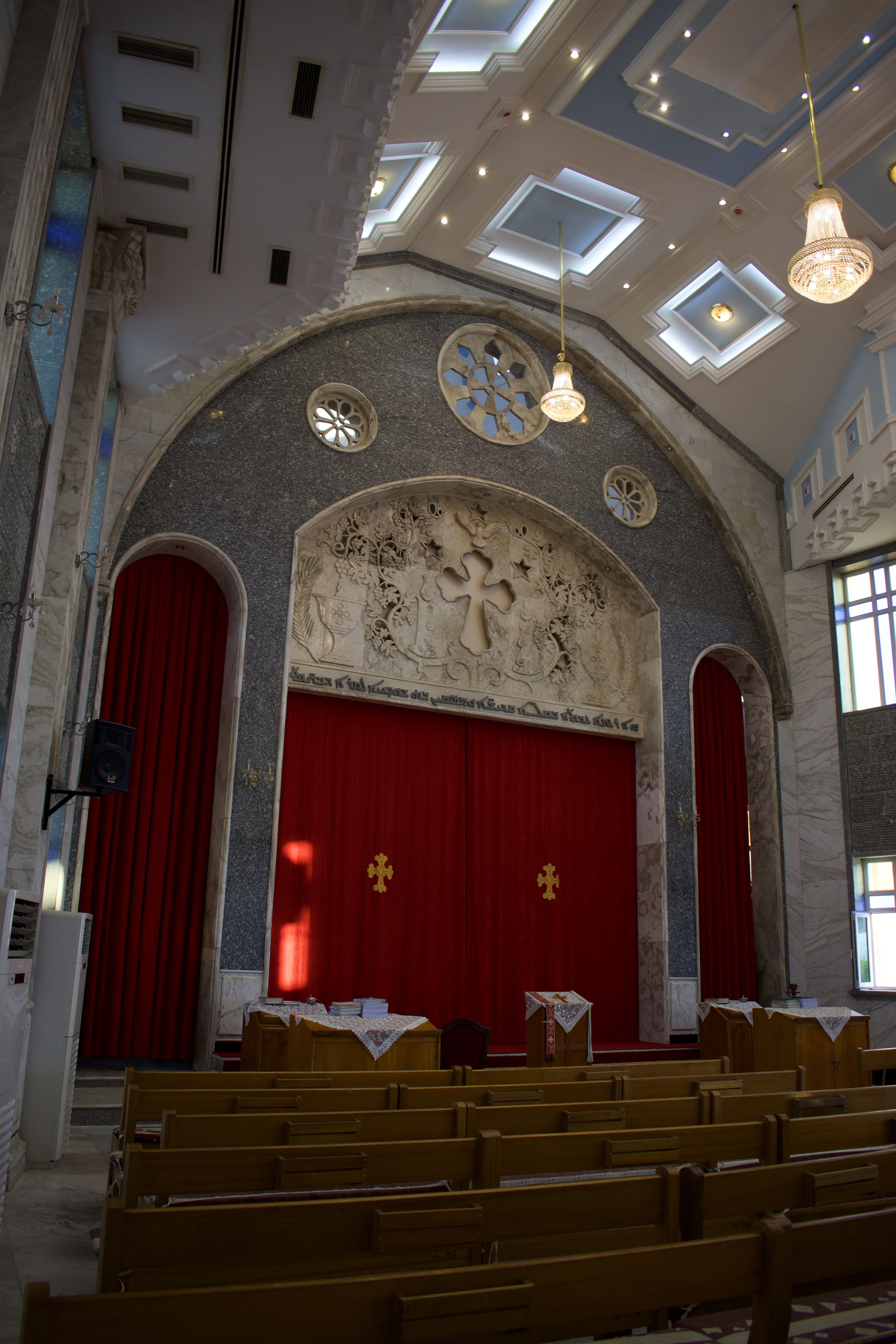 Interior view of the Church of Saint John the Baptist, an Assyrian Church of the East cathedral in Ankawa